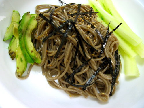 Soba Noodle Salad